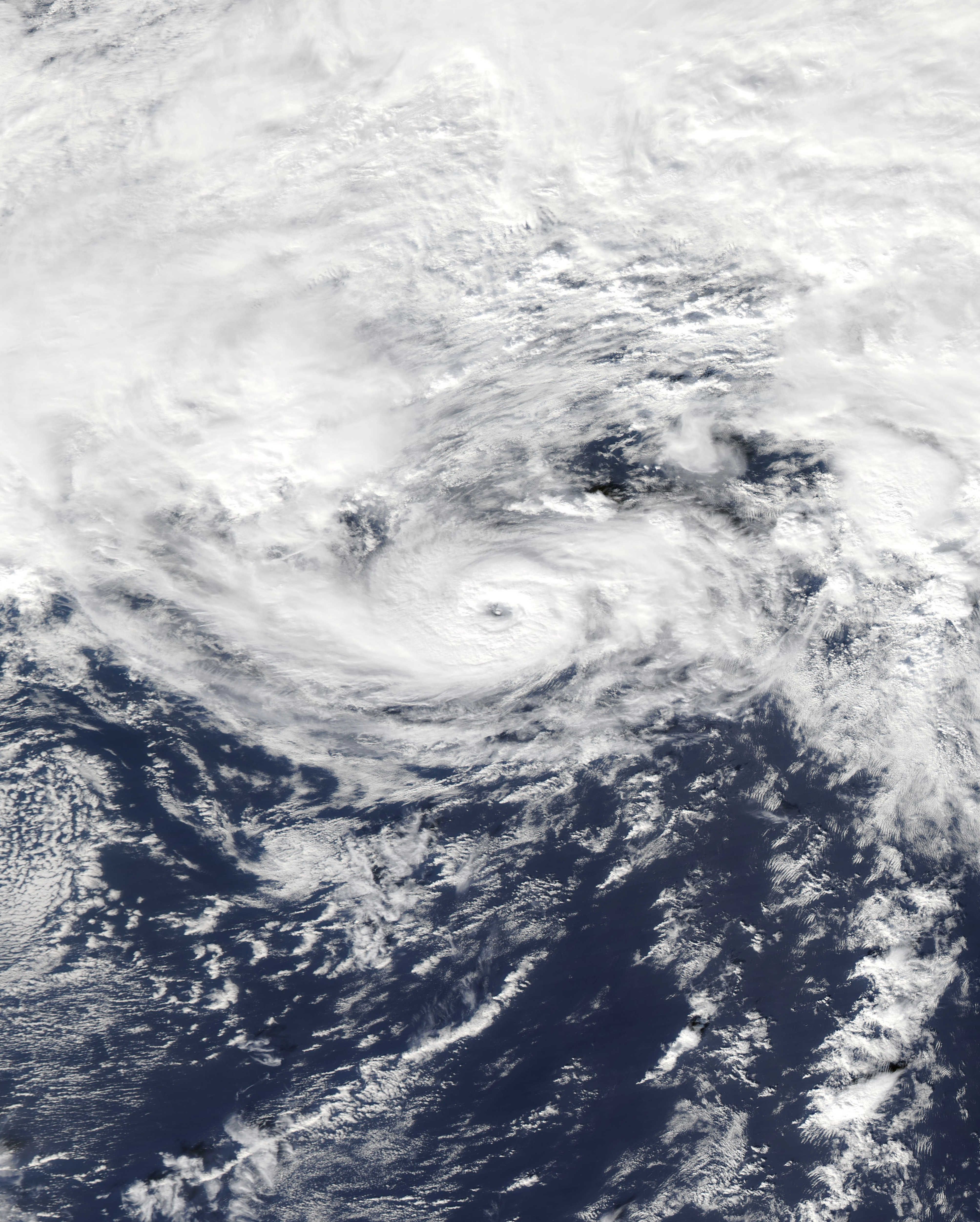 Tropical Storm Pablo shortly before officially attaining hurricane status at 14:02 UTC on October 27, 2019, while located in the far northeastern Atlantic between the Azores and the Iberian Peninsula.